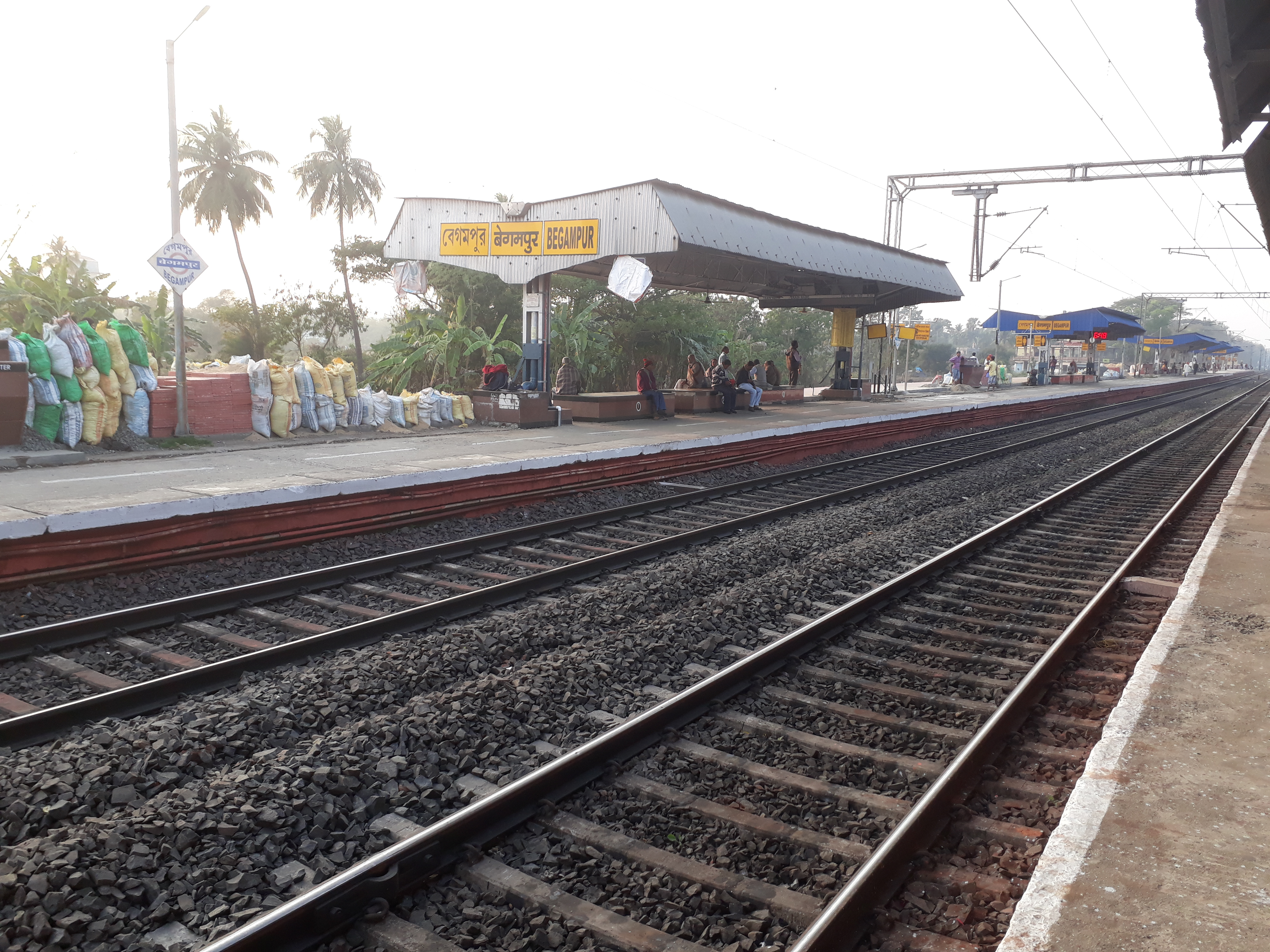 Begampur railway station in Howrah Bardhaman cord line, Hooghly district, west Bengal